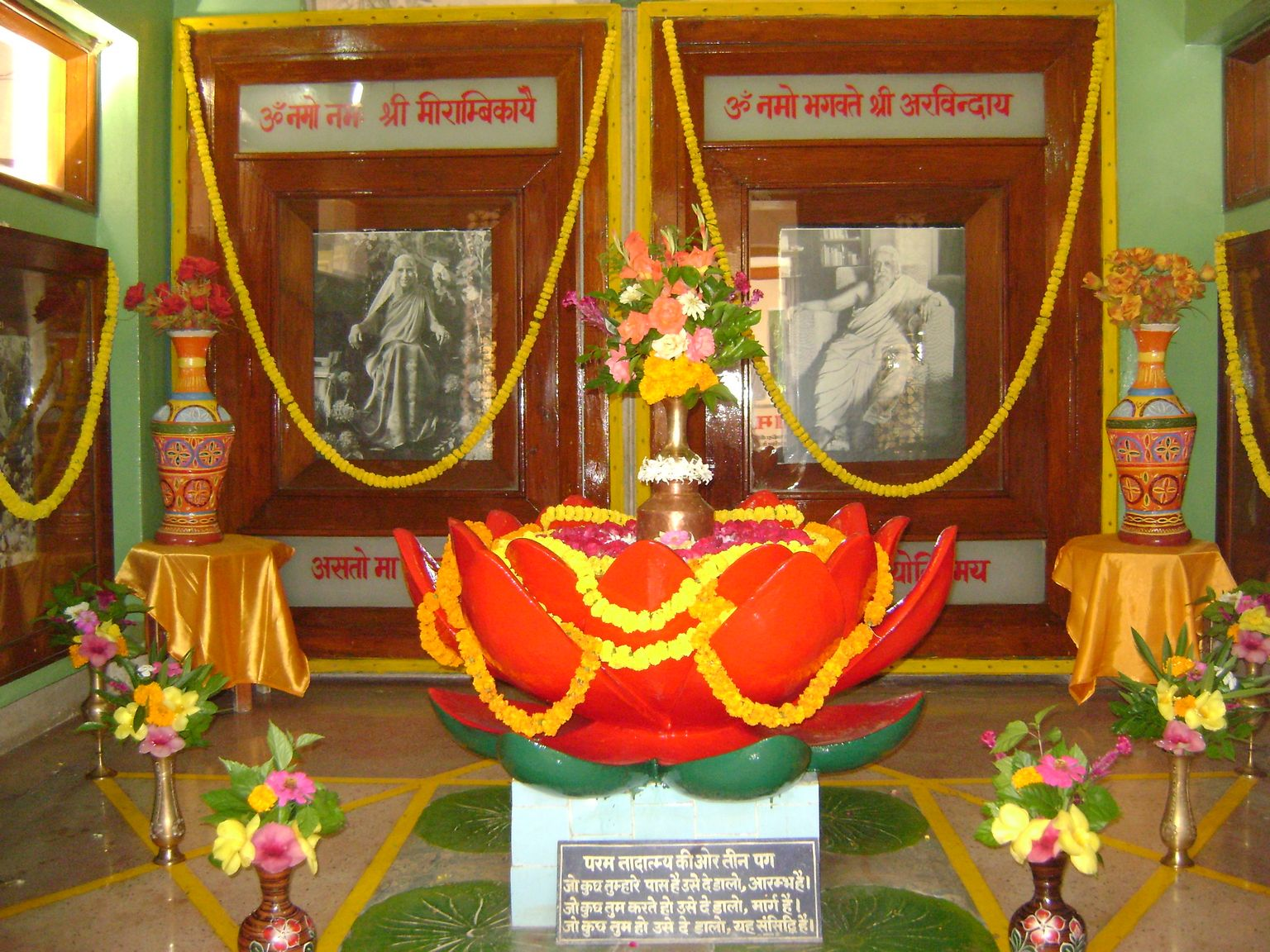 Kamal Kalash(Relics)